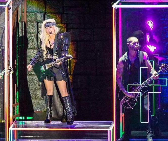 Lady Gaga performing "Electric Chapel" on the Born This Way Ball in Manchester, UK.